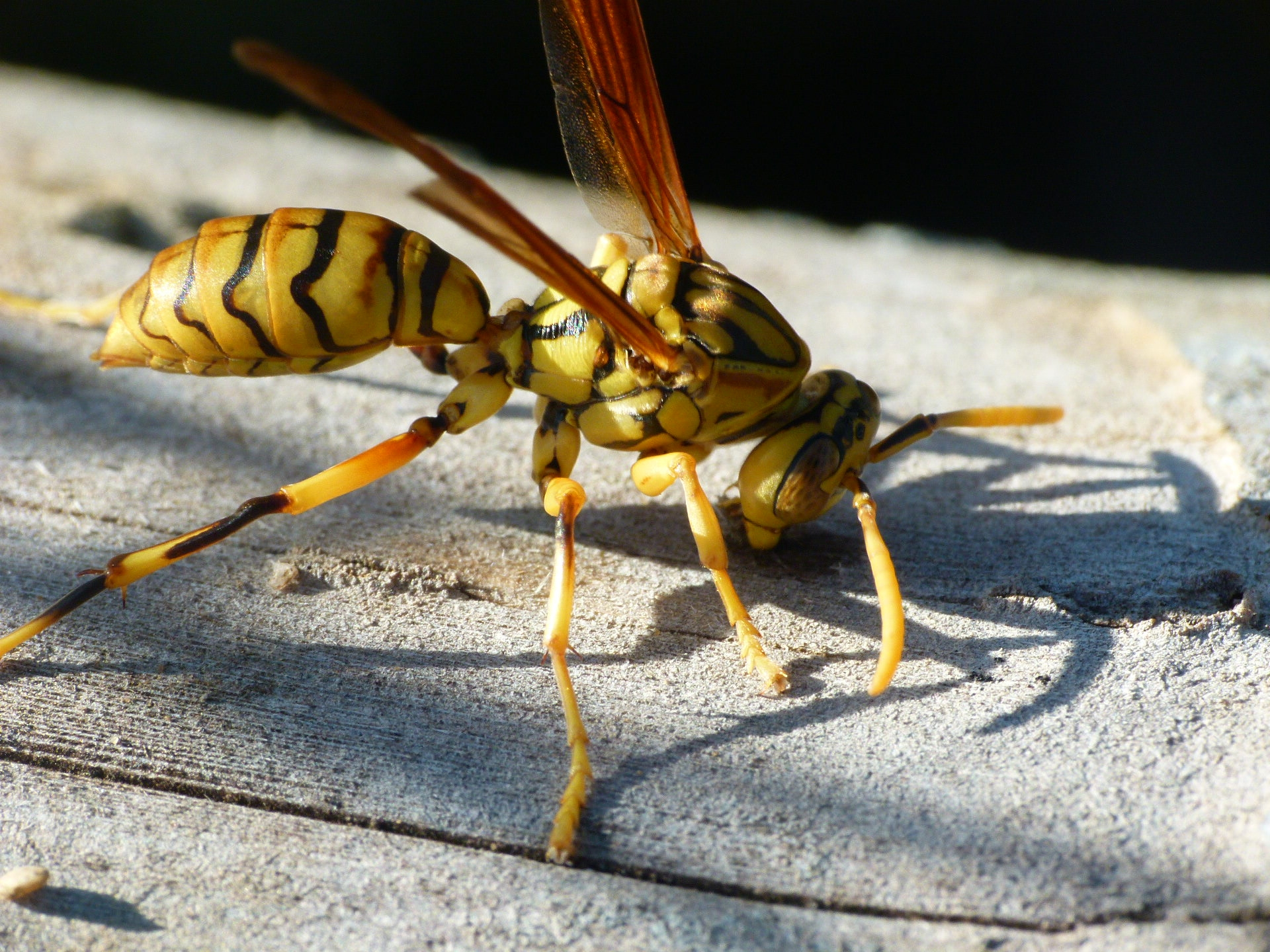 Polistes olivaceus, from Bandipur, India